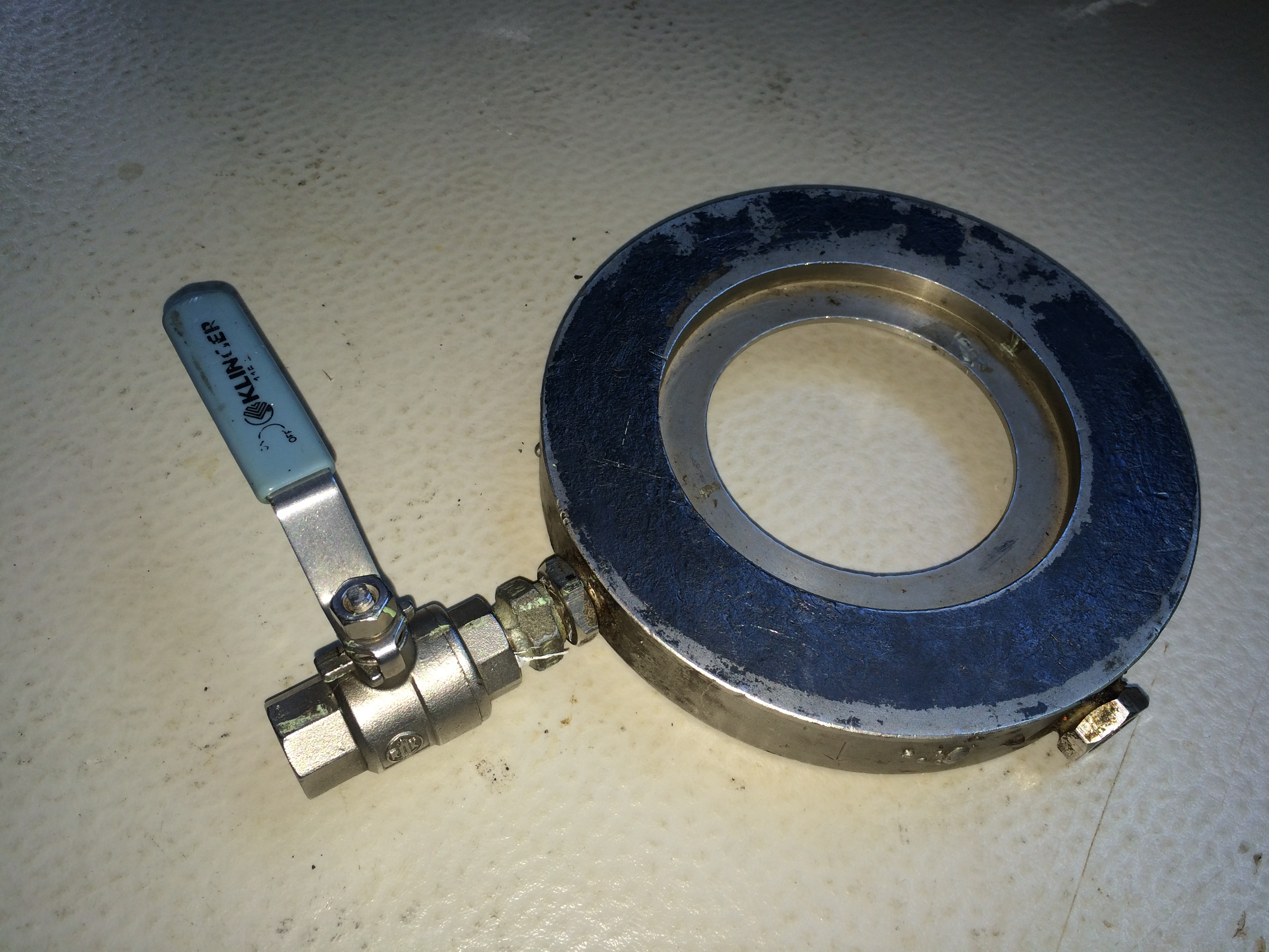 A small orifice plate used for flow measurements